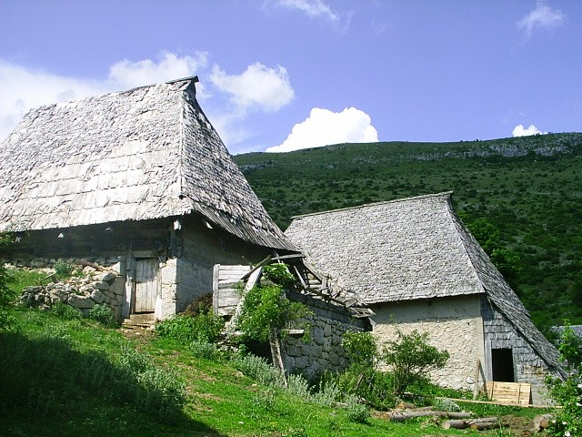 The village of Zahum in Raduša, BiH